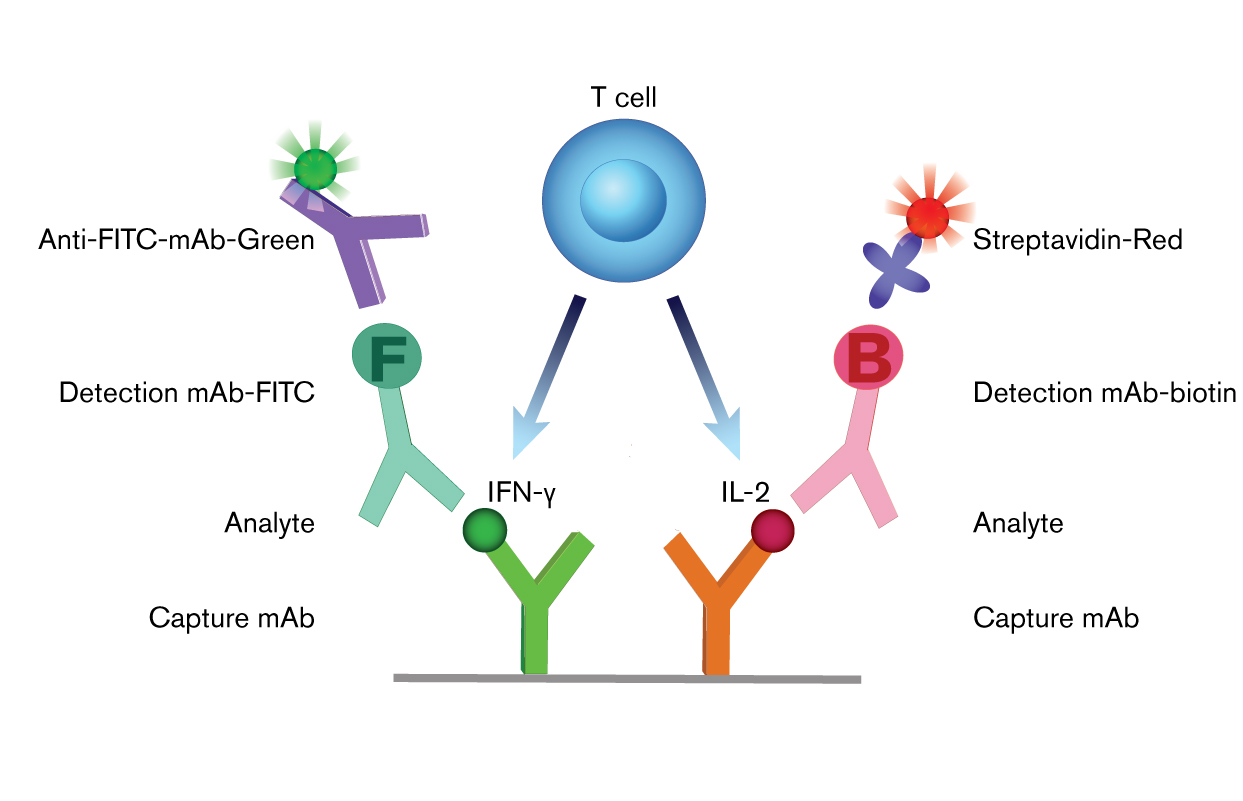 Principle of FluoroSpot detection of cells secreting two cytokines (IFN-g and IL-2).